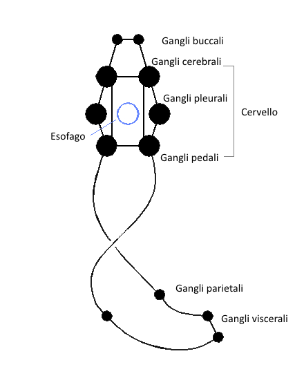 Simplified plan of the gastropod central nervous system, showing the main ganglia